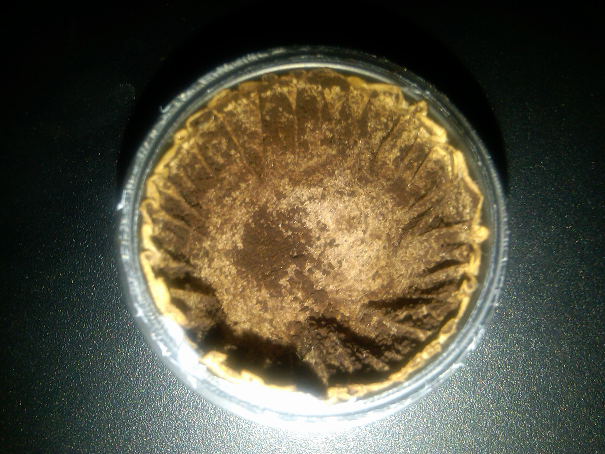 This photo shows the inside of a commercially-prepared K-Cup which has had its foil lid and its used coffee removed.